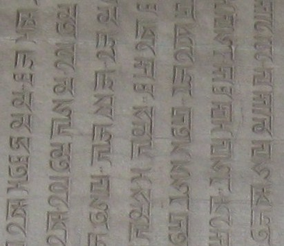 Detail of the 'Phags-pa large character inscription on the east wall of the Cloud Platform at Juyongguan, Beijing, China.